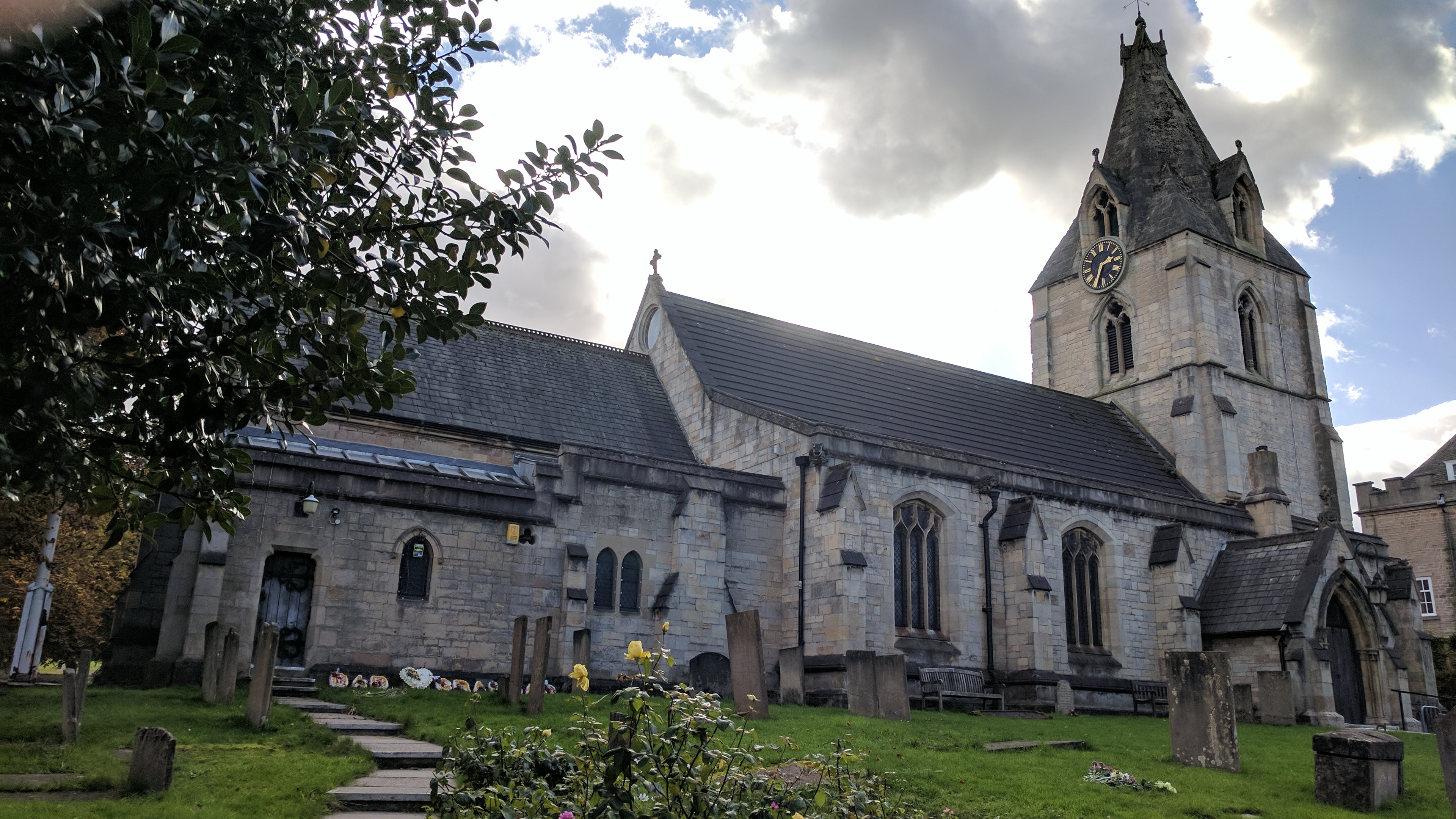 Church Of St Edmund Wikidata has entry Q17547556 with data related to this item.